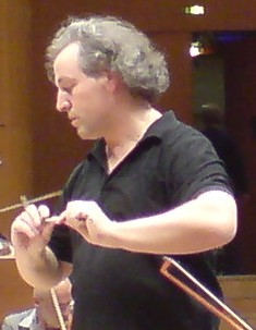 Manfred Honeck